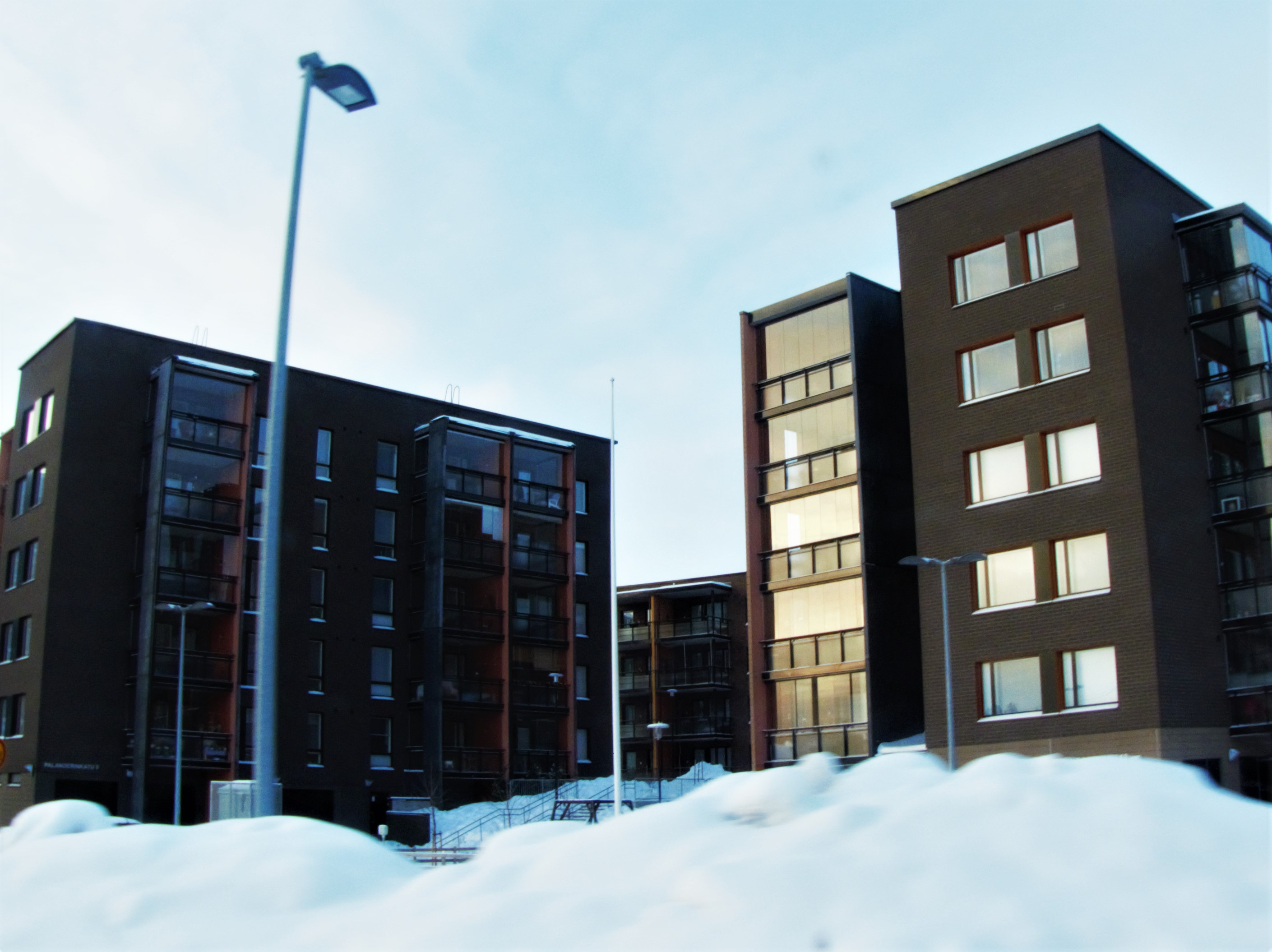 Apartment houses in Jyväskylä.